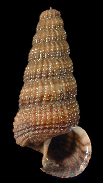 Photo of an apertural view of a shell of Cerithidea quoyii.